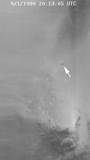 Credit: NASA/JPL/Malin Space Science Systems [1] [2] The penumbral shadow of Phobos on Mars on September 1 1999, imaged by Mars Global Surveyor. The center of the shadow was at approximately 14°N 236°W (map) at 20:49:02.4 UTC Earth time. Note that the timestamp "20:13:05" printed on the photo does not correspond to the actual time that the shadow was imaged, rather it represents the "image start time" of a vertically much larger original image that took nearly an hour to acquire. M07-00166 (red) and M07-00167 (blue). Mars Global Surveyor orbits Mars in a sun-synchronous polar orbit with orbital period 117.65 minutes, moving from south pole to north pole, and continuously points its camera straight down. The result is an image in the form of a very long thin vertical strip, where the pixels in the top part of the image are imaged nearly one hour after those in the bottom part of the image. However, "downtrack summing" usually reduces the vertical size of the image by a considerable factor by merging multiple lines into one. In this case the image start time is 20:13:04.69 UTC, the line integration time is 80.48 milliseconds, and the downtrack summing factor is 27. The shadow is about 8 pixels high, centered at 993 pixels from the bottom of the original 1600-pixel-high image. We add (993 * 0.08048 * 27) = 2157.75 seconds = 35 minutes 57.75 seconds to get a time of 20:49:02.4 UTC for the center of the shadow. External links NASA press release (November 1 1999) MOC Global-Map Images, Subphase M07 Mars Global Surveyor Mars Orbiter Camera Image Gallery